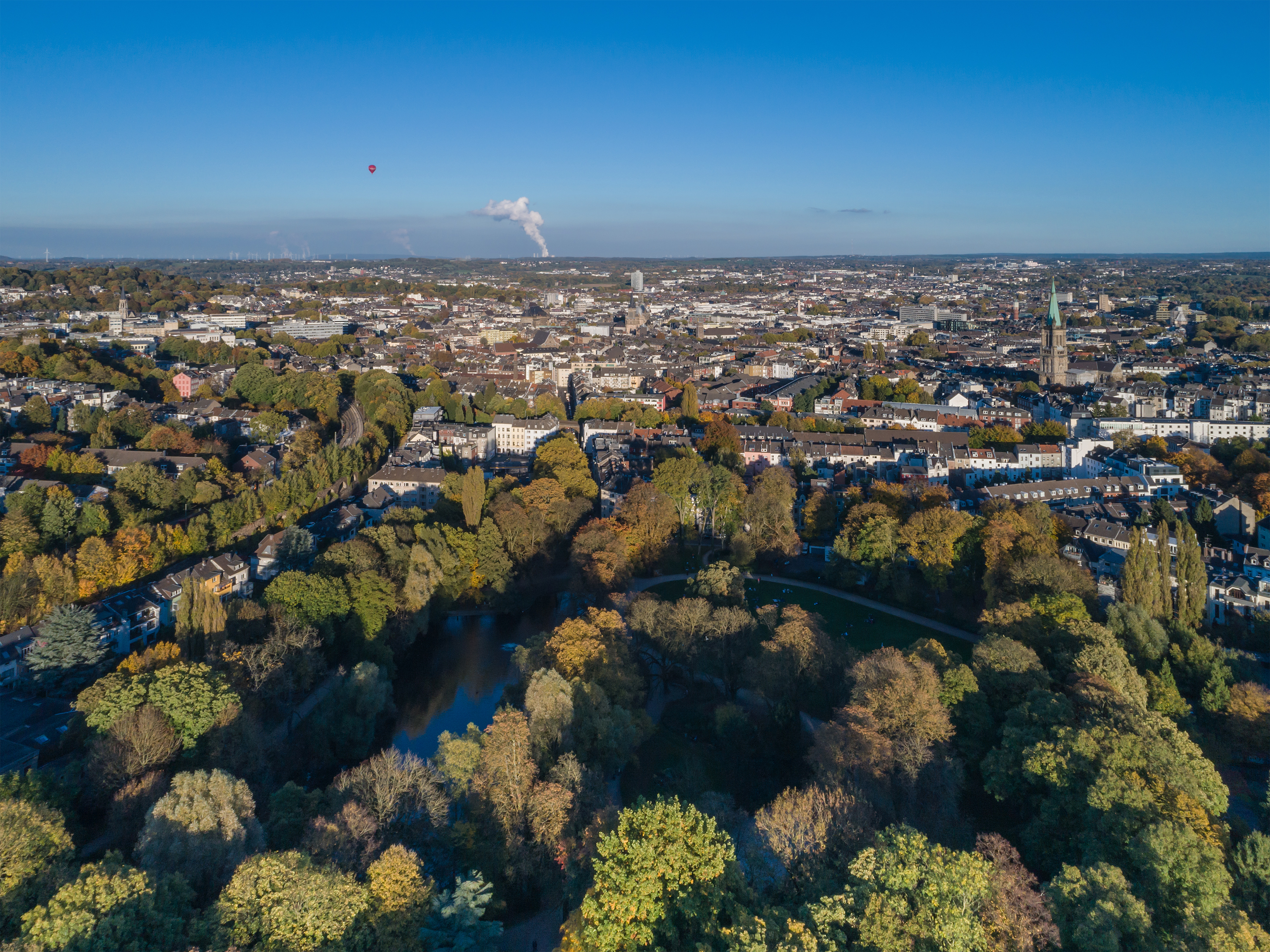 Aerial photo of Aachen (Germany)